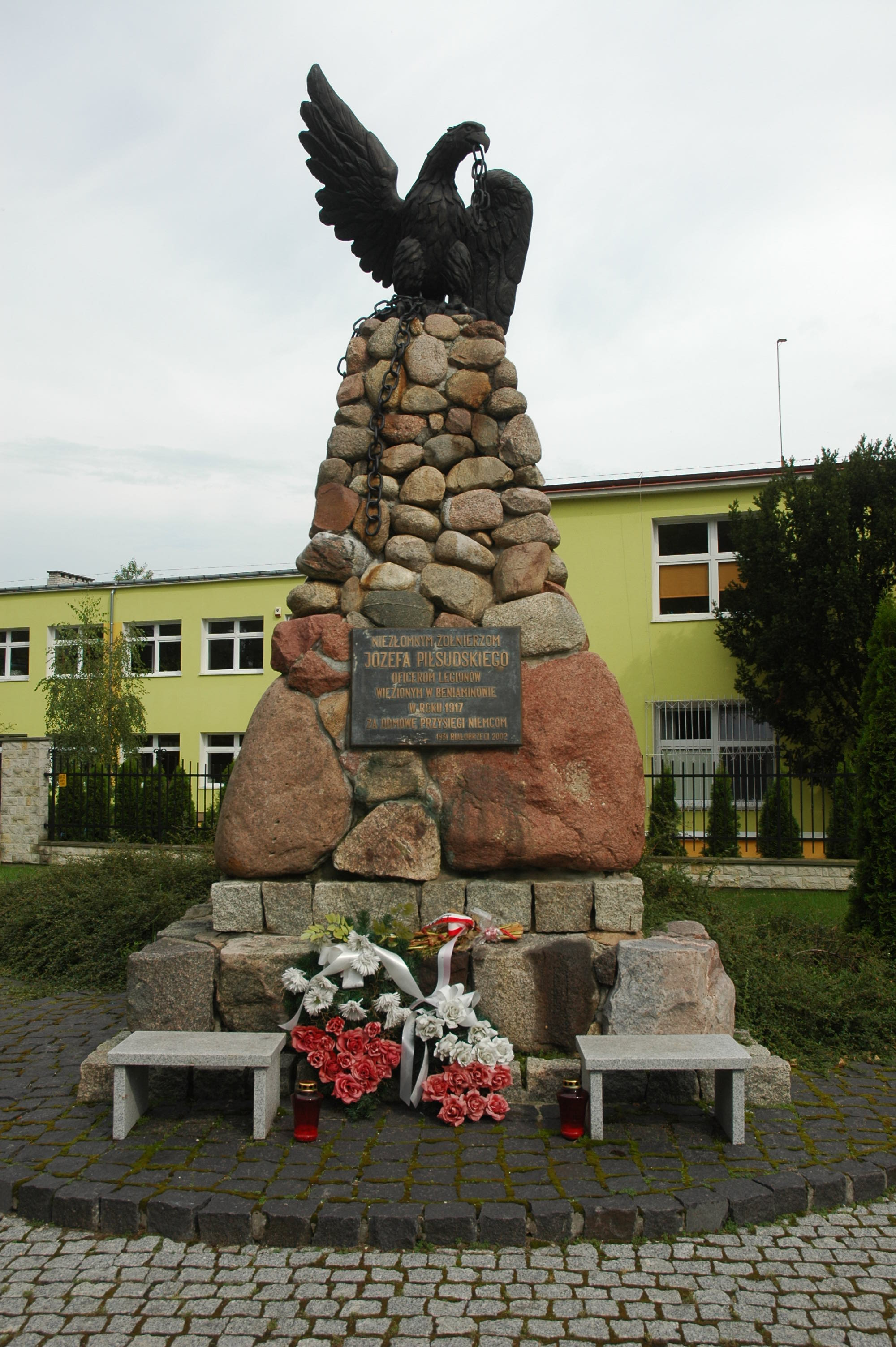 Monument to Jozef Pilsudski steadfast soldiers (Białobrzegi - District Legionowo)